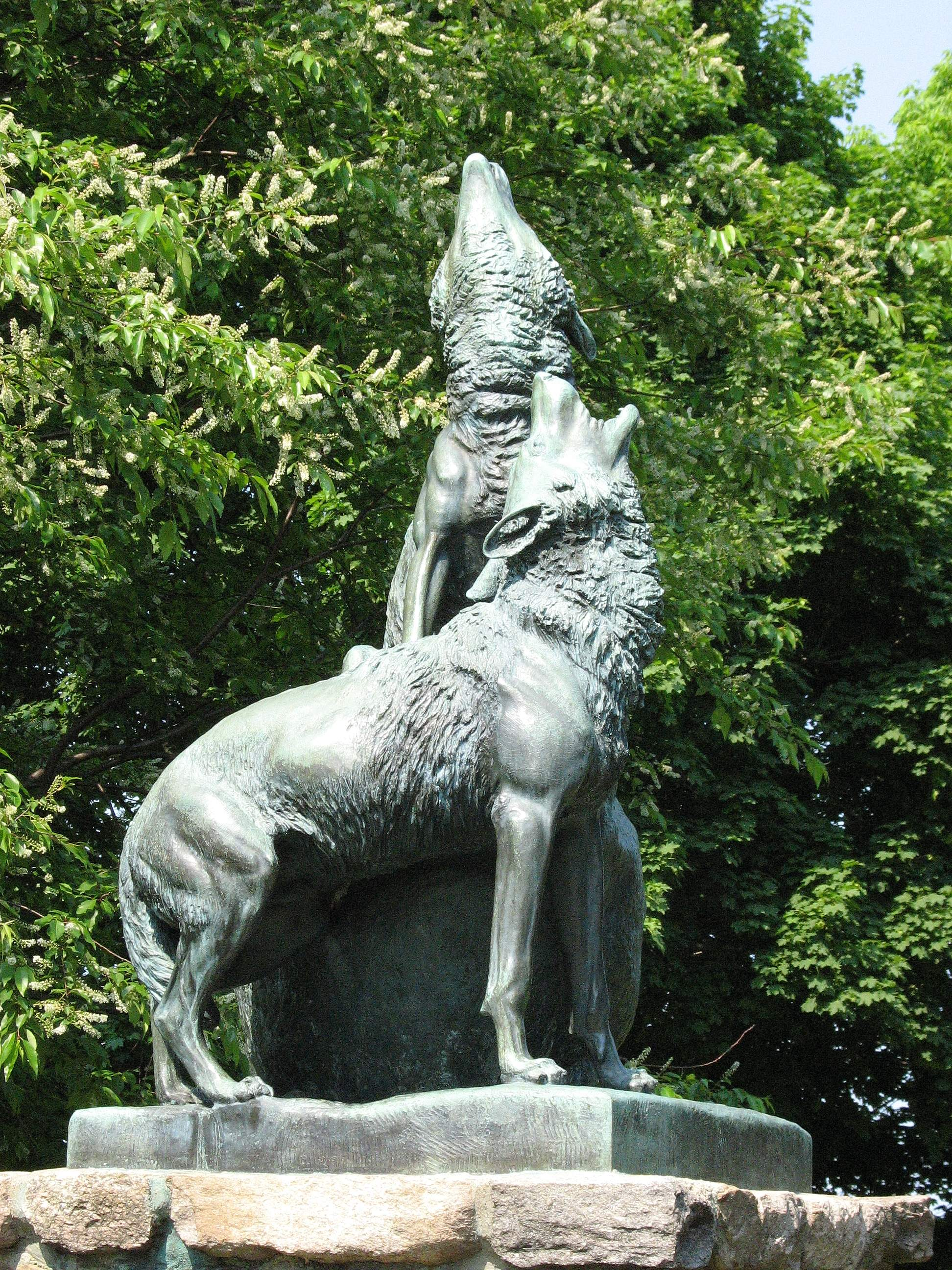 Sculpture of Wolves at the entrance to Huntington State Park in Redding CT by Anna Hyatt Huntington